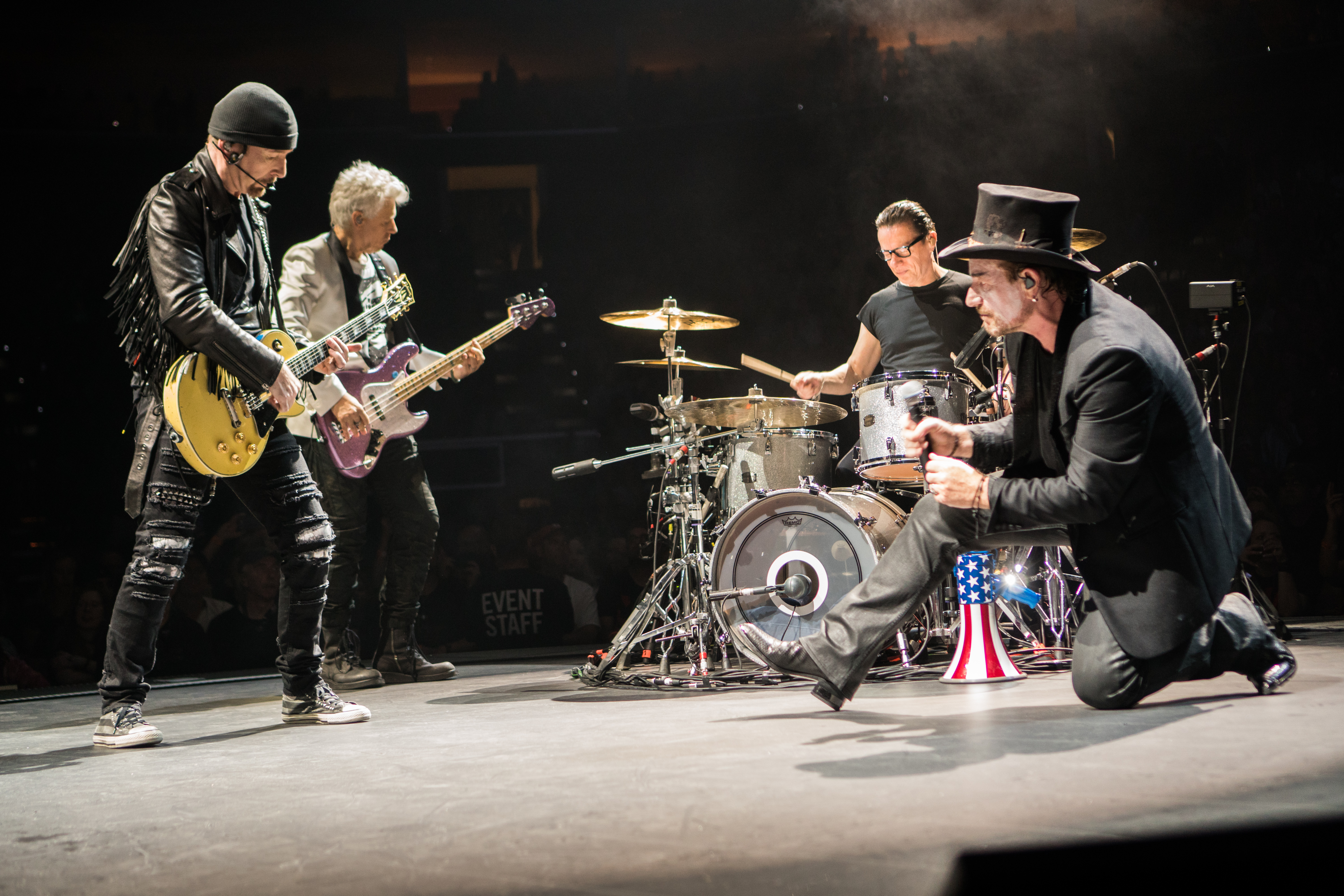 U2 performing on the B-stage during a concert at BOK Center in Tulsa, Oklahoma on May 2, 2018 on the Experience + Innocence Tour